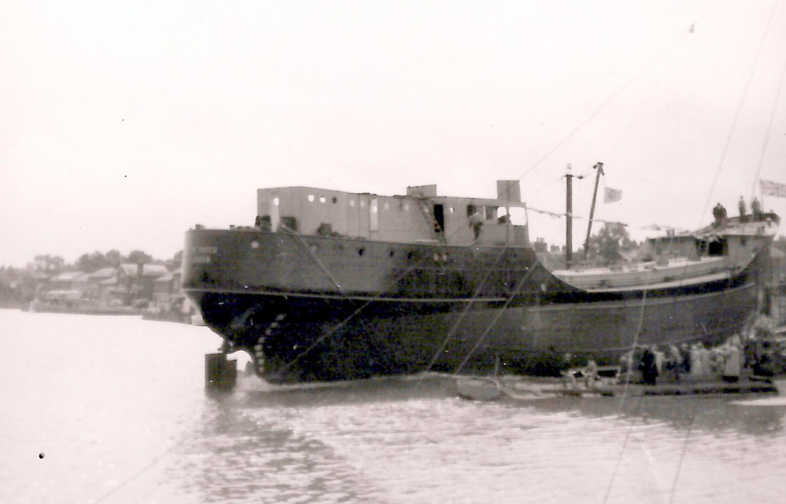 Ben Bates the launch. Just named, the ship slides into the River Colne at Rowhedge.